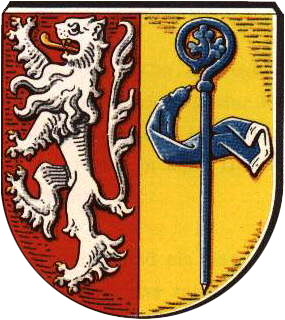 Coat of arms of Wirdum (Lower Saxony, Germany)